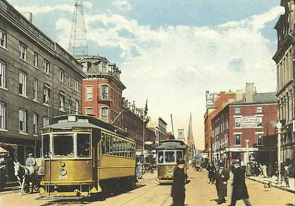 North Main Street, Fall River, MA; from a c. 1910 postcard. Most of the buildings pictured along the left side of the street, along with the city hall which can be barely seen to the far right, were demolished to make room for either Interstate 195 (which passes directly under the site of the gray Granite Block building) or a new home for Durfee Trust Bank (now a regional office for Bank of America). In fact, the white building just above the second trolley is the first building of that line that still stands.